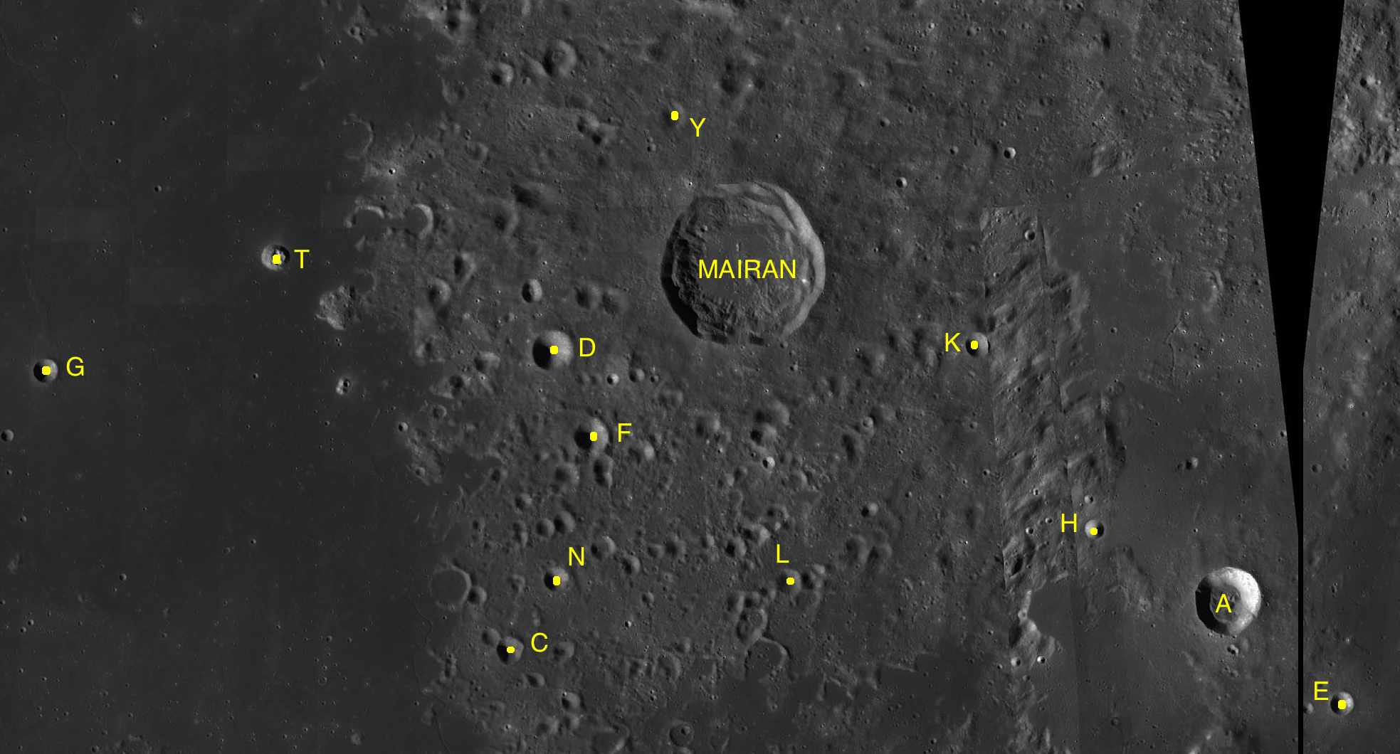 Parts of the charts LAC-23, LAC-24 used for the presentation